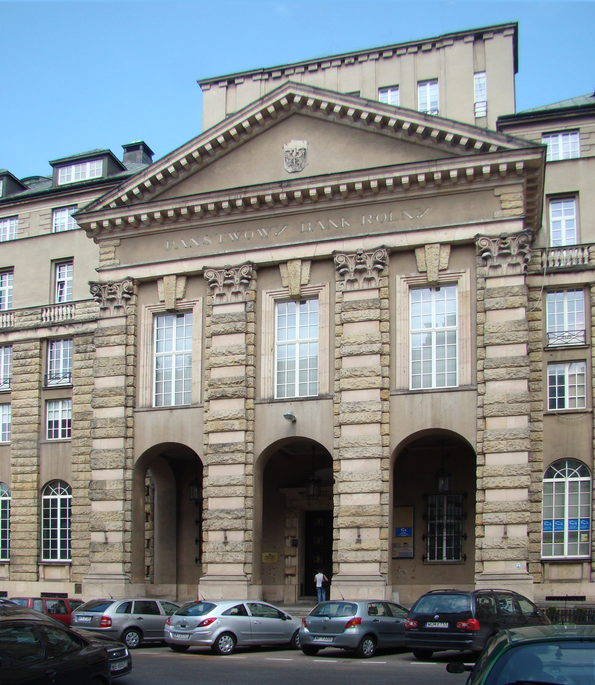 Bank of Agriculture in Warsaw